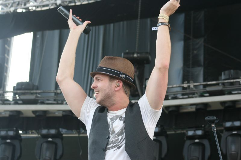 Frontman of OneRepublic Ryan Tedder